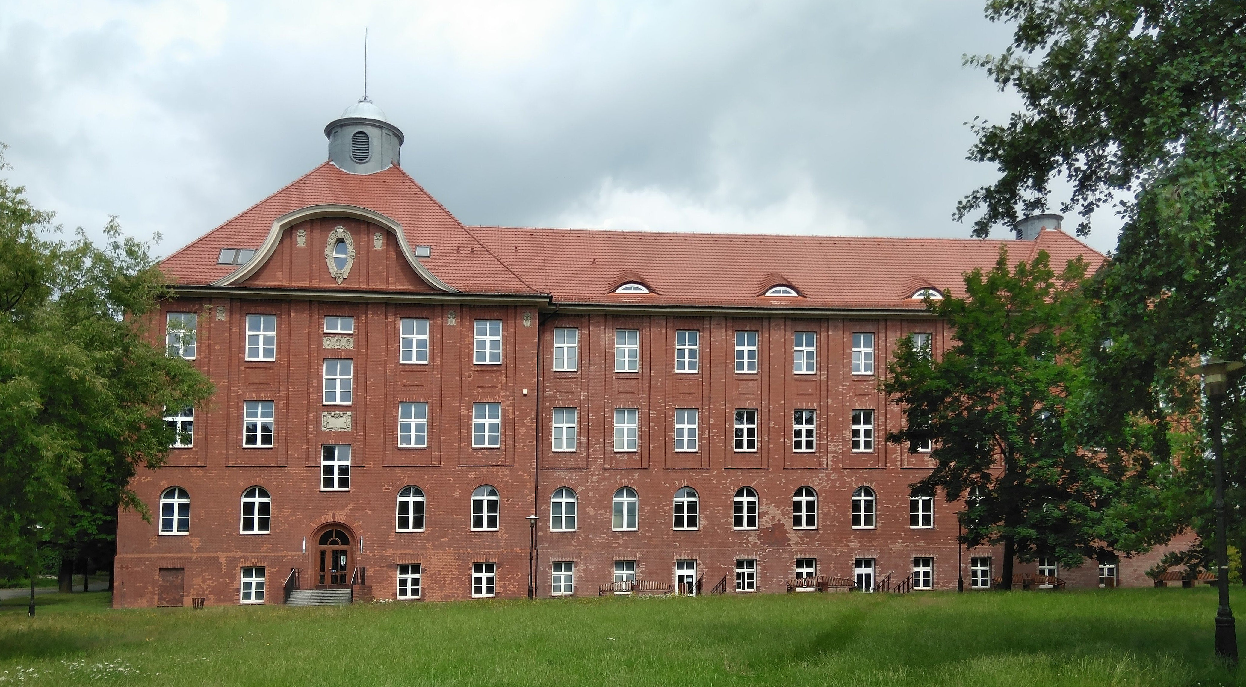 University campus of Rybnik, Upper Silesia, Poland - a building of the University of Economics